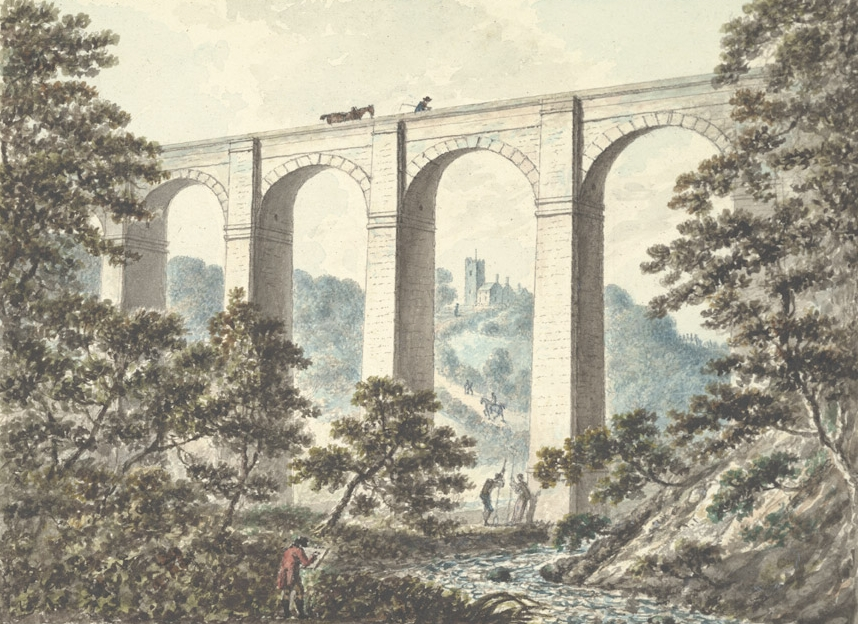 Part of the aquaduct at Chirk, 1795